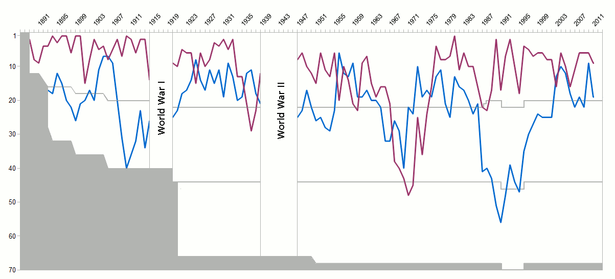 Graph charting the finishing league positions from 1888 - 2011 of English football club rivals Aston Villa and Birmingham City.